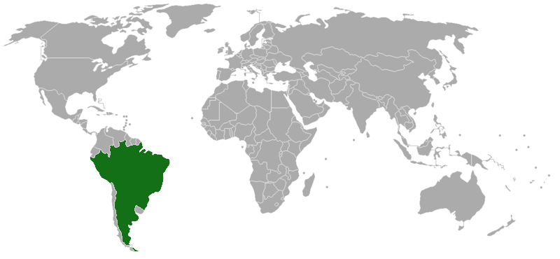 Anadenanthera colubrina Range Map Made with GIMP, a blank map from the Commons and data from ILDIS. This raster graphics image was created with GIMP.